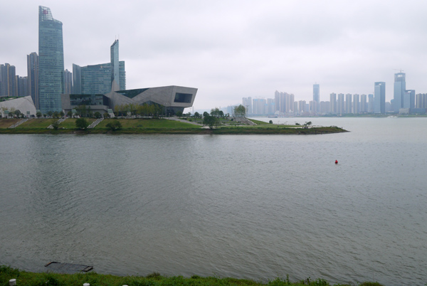 liuyang river 1